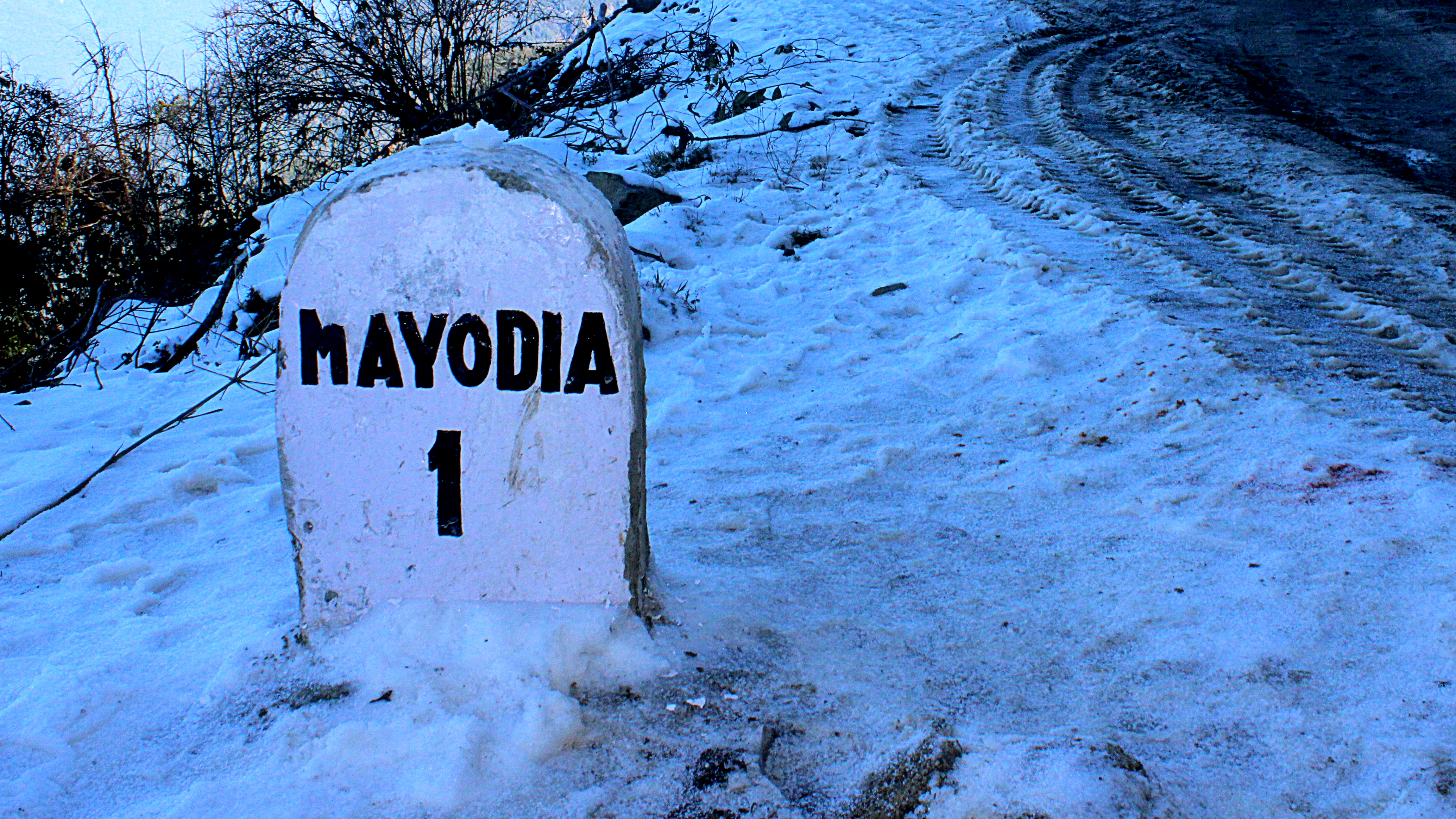 Mayodia Pass_4